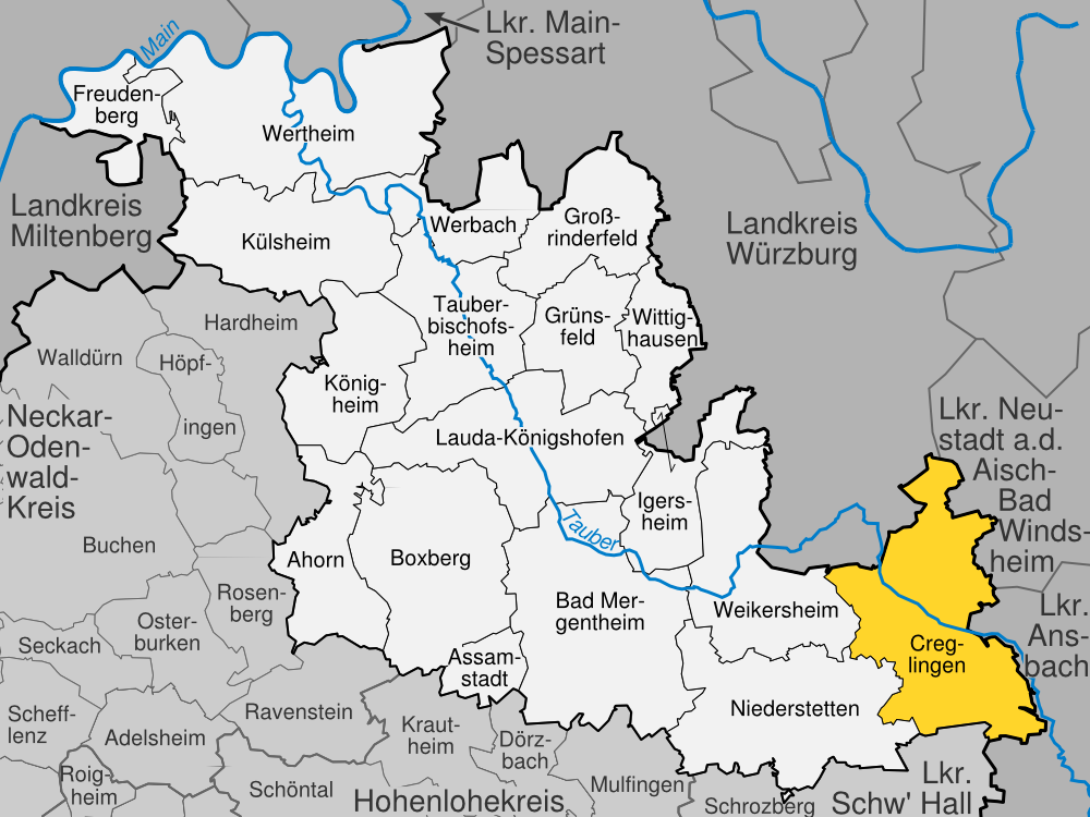 position of Creglingen within the Main-Tauber-Kreis, Baden-Württemberg, Germany